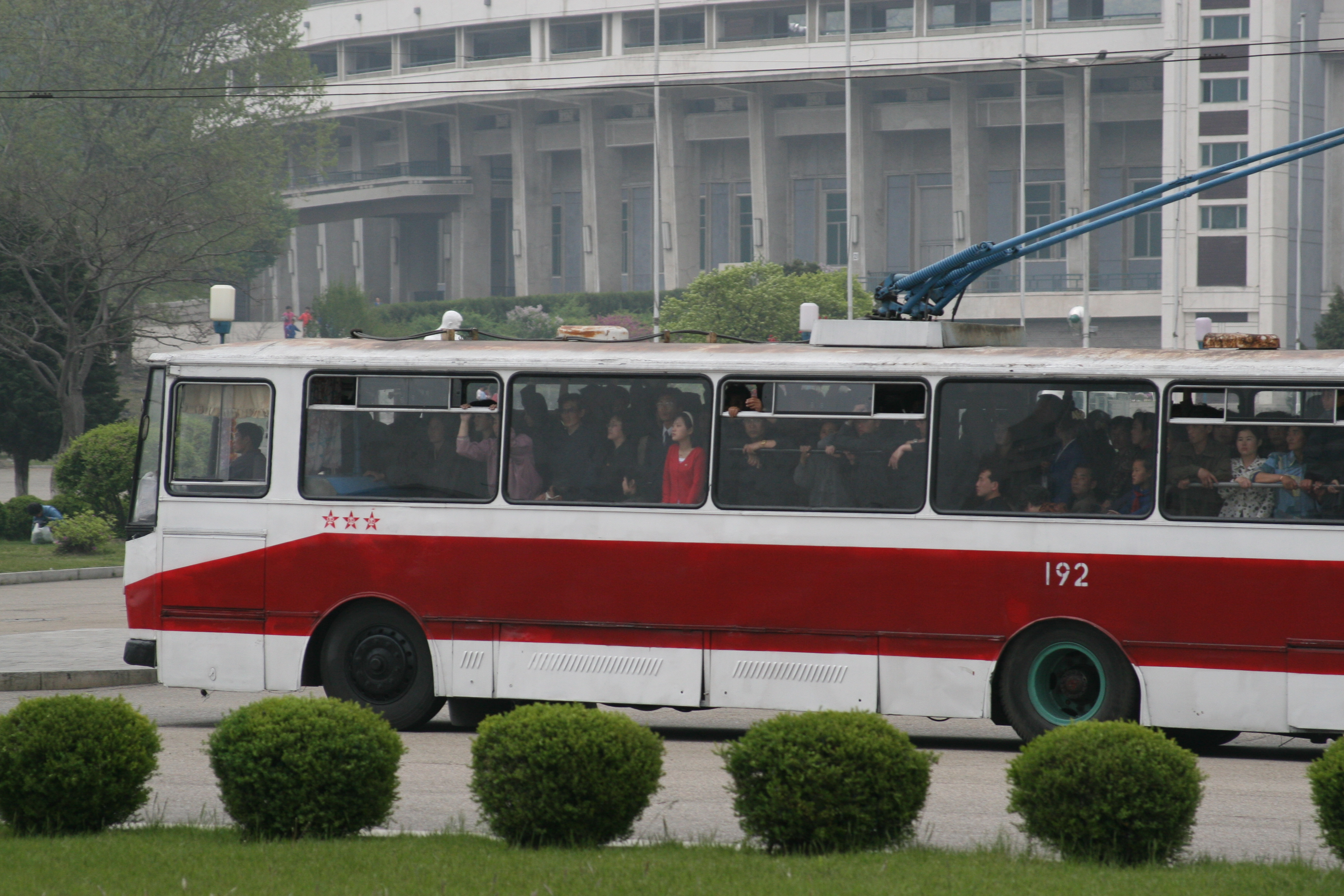 A trolleybus full of commuters in downtown Pyongyang.